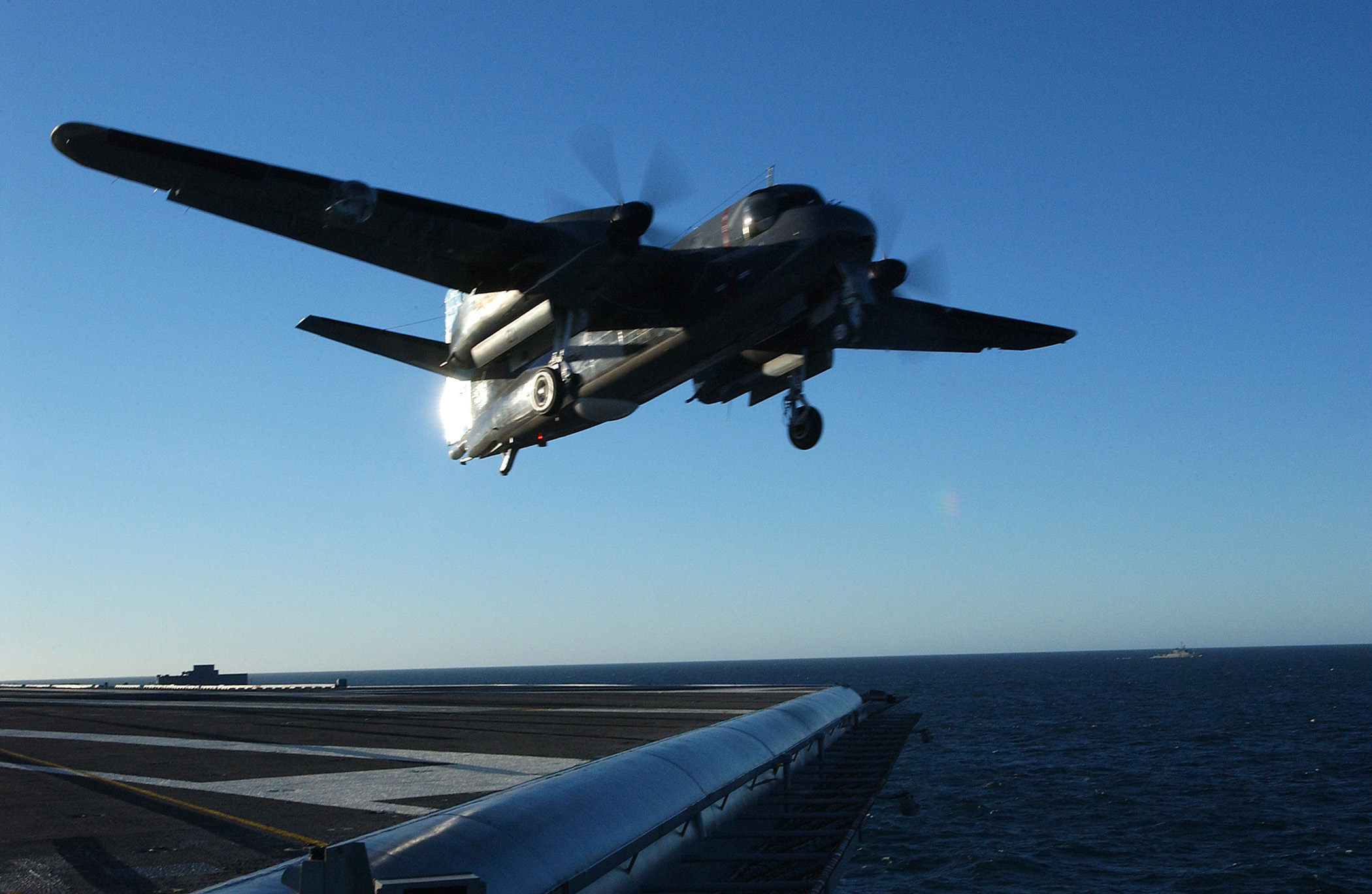 South Pacific (sic) Ocean (June 17, 2004) – An Argentine Navy S-2 Tracker aircraft performs a “touch and go” landing during flight operations aboard the Nimitz-class aircraft carrier USS Ronald Reagan (CVN 76). The S-2 Tracker is a carrier-borne or land-based anti-submarine warfare patrol aircraft. Reagan is currently circumnavigating South America to her new homeport of San Diego, Calif. U.S. Navy photo by Photographer’s Mate Airman Konstandinos Goumenidis (RELEASED)